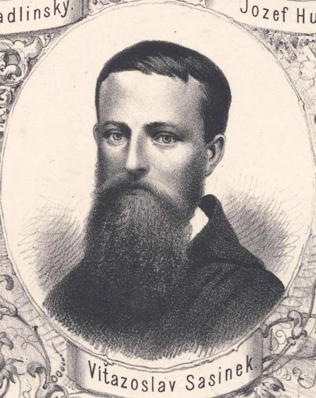 Portrait of František Víťazoslav Sasinek (1830 - 1914), Slovak historian. Picture cropped from a gallery of famous Slovaks.